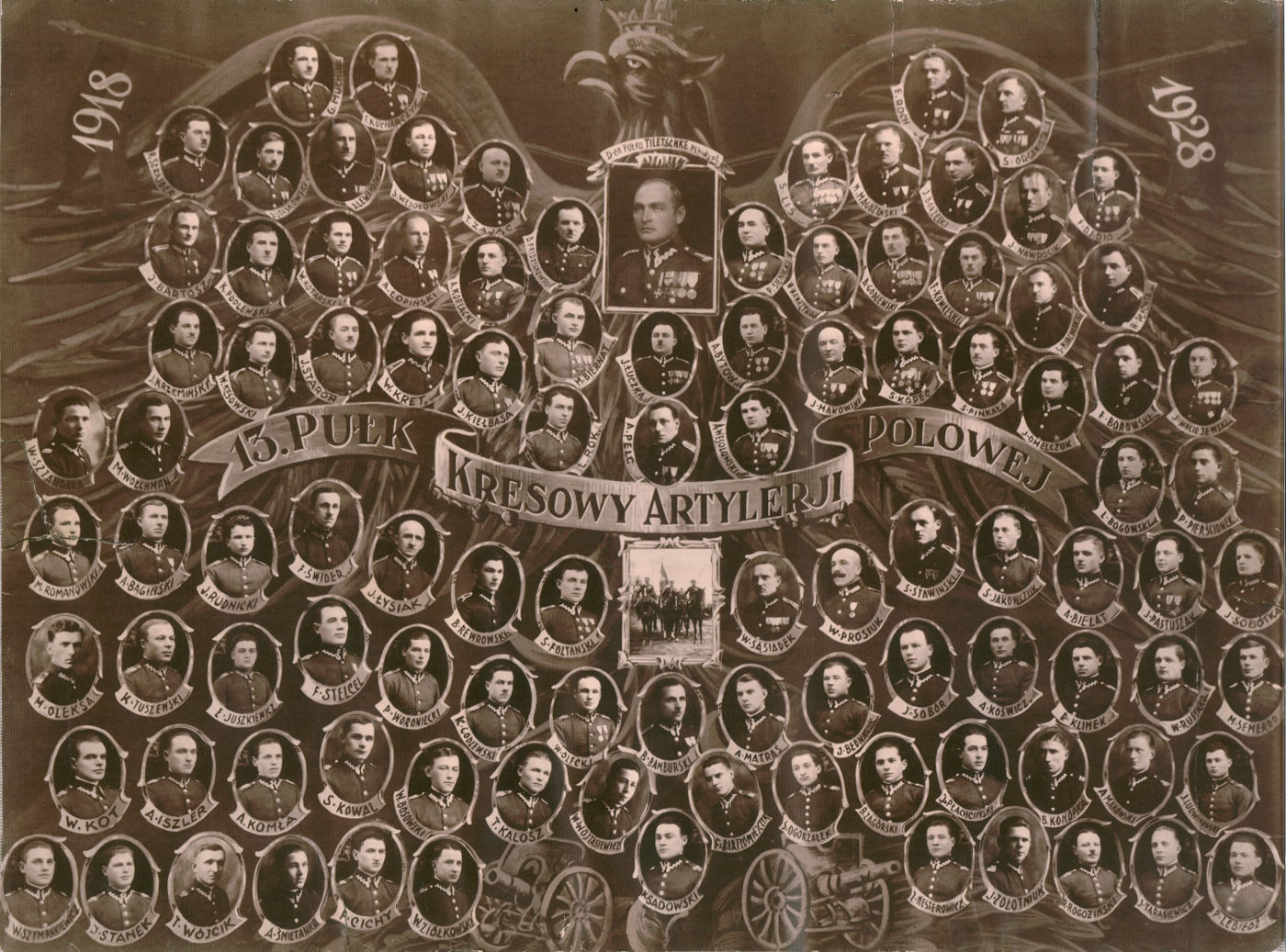 The officers of the 13 'Kresowy' Regiment of Light Artillery. 10th Anniversary picture Unknown